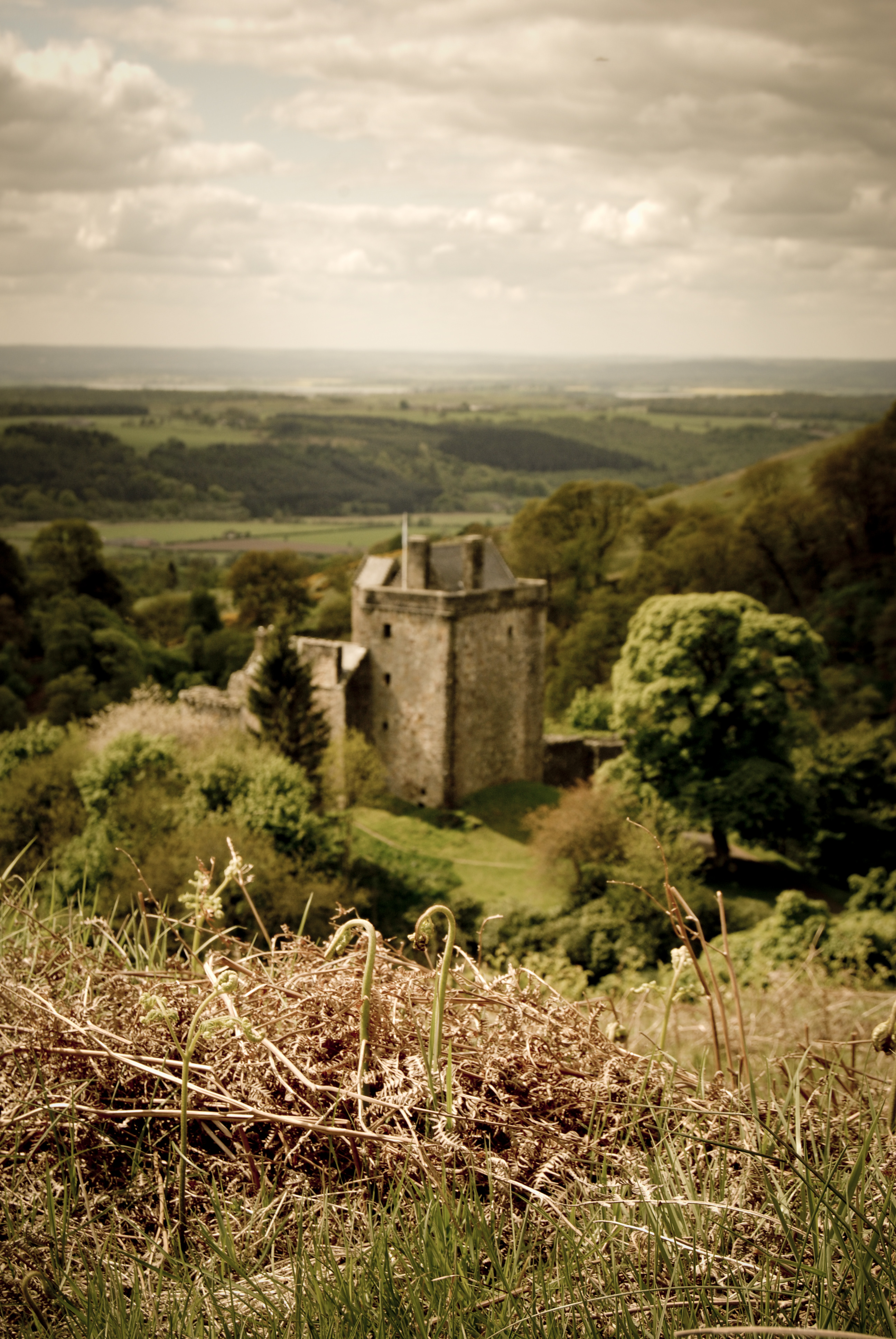 Castle Campbell seen from above the glen